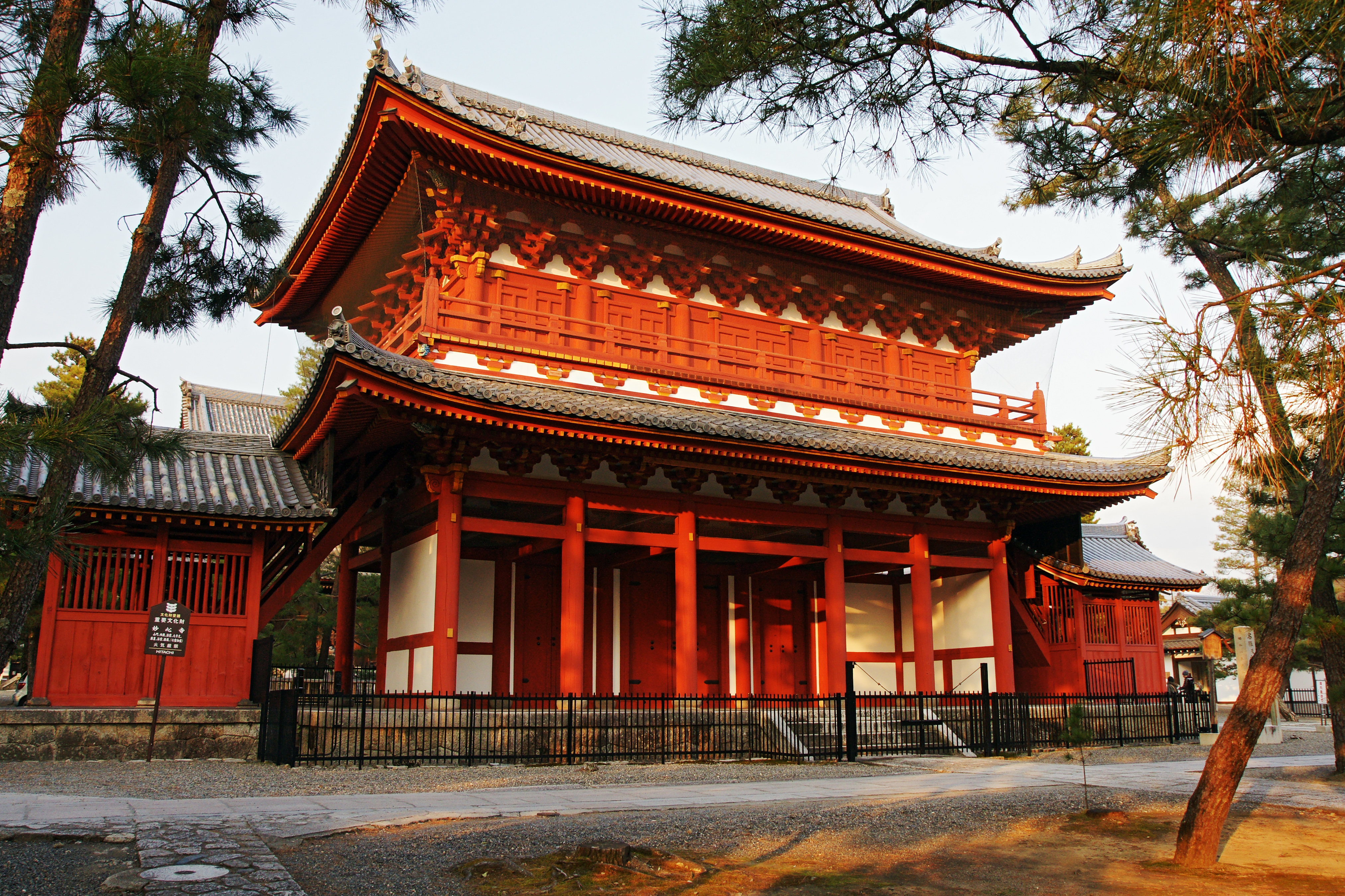 Myōshin-ji in Kyoto, Kyoto prefecture, Japan